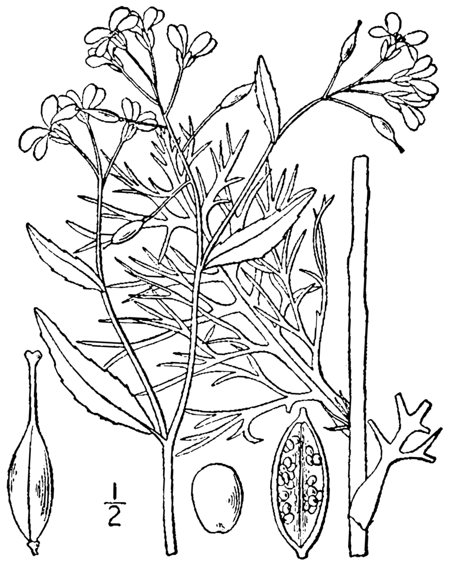 Rorippa aquatica (Eaton) Palmer & Steyerm. [syn. Neobeckia aquatica (Eaton) Greene] - lakecress